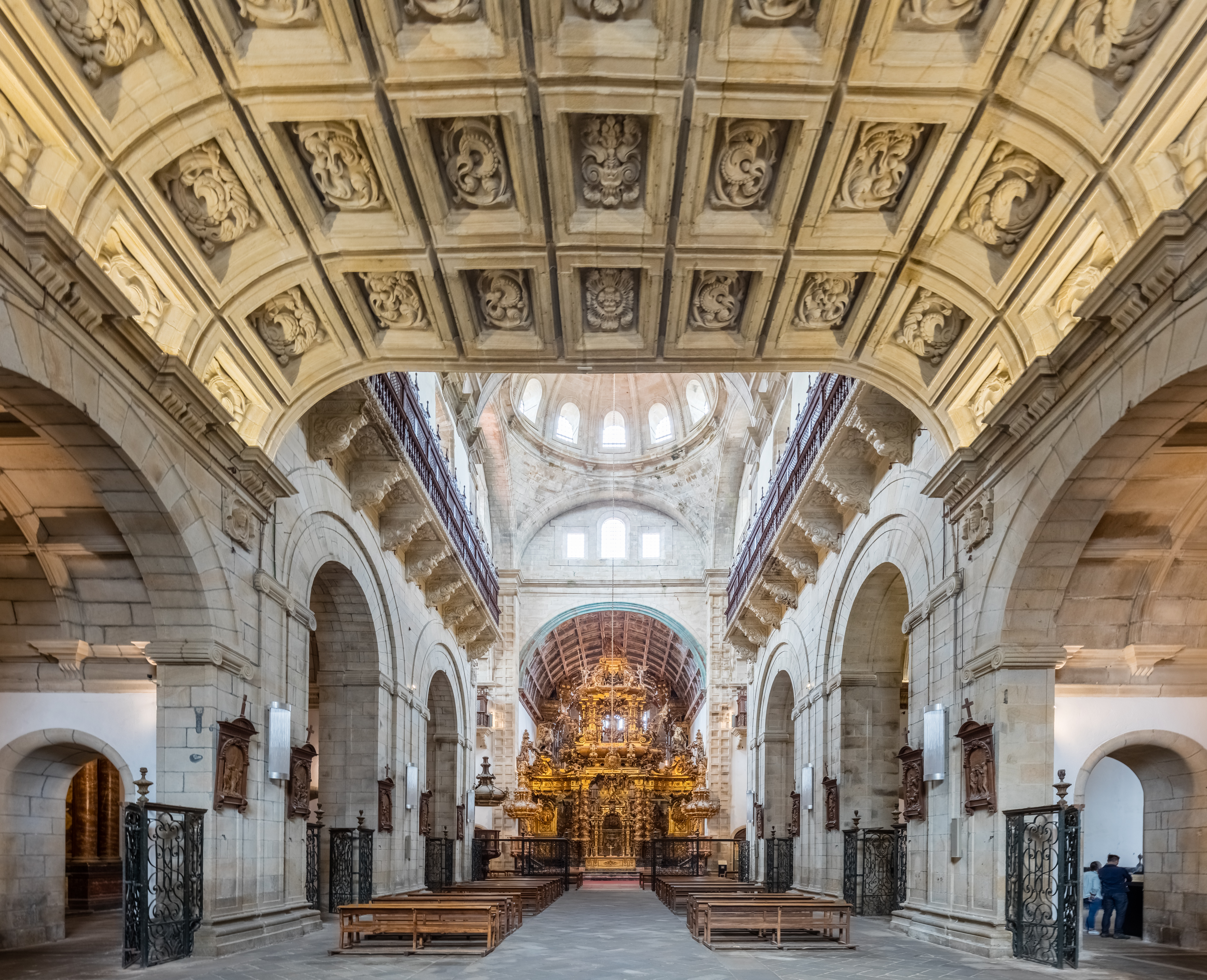 San Martin Monastery, Santiago de Compostela, Spain